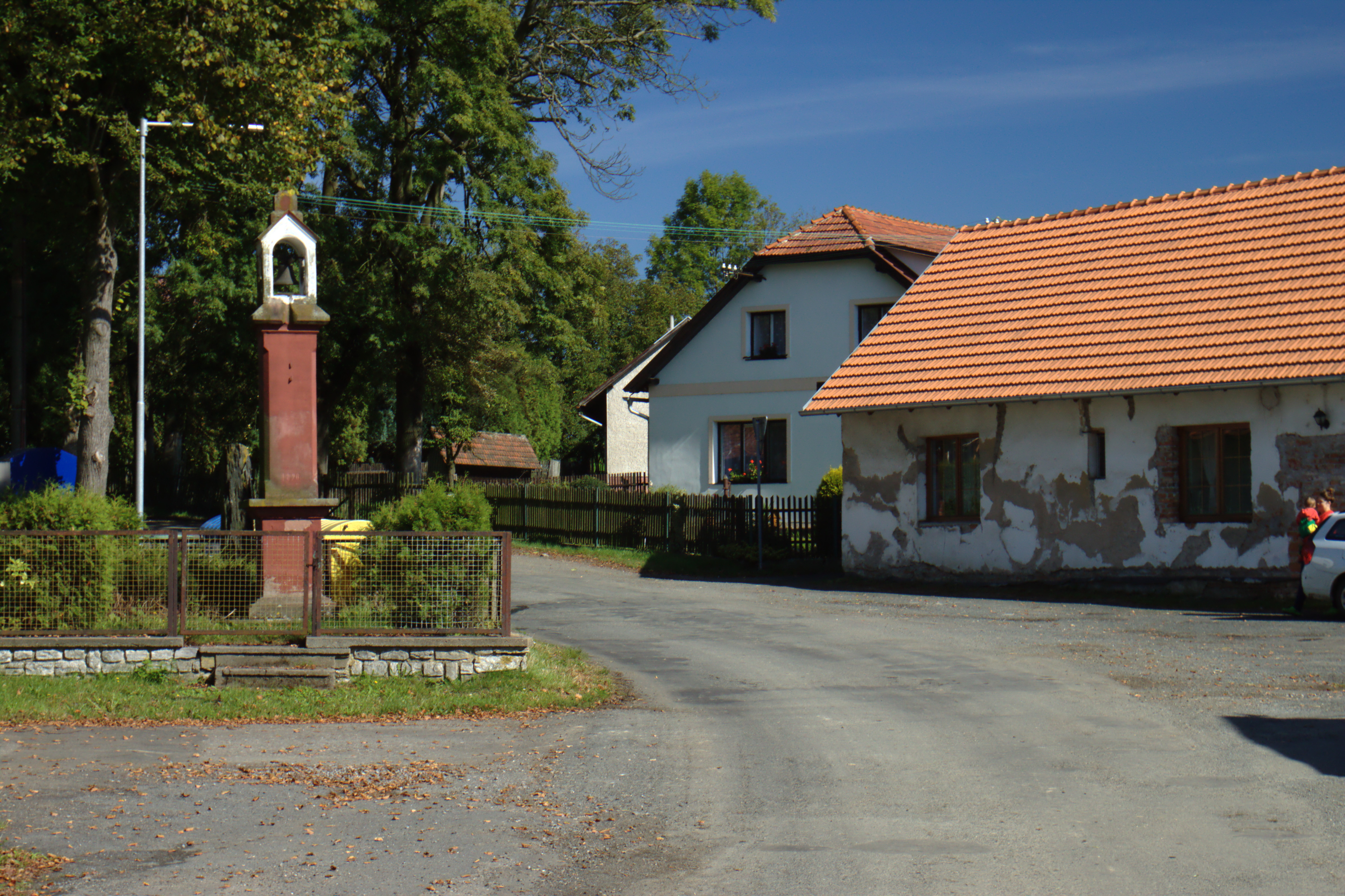 A cross at the Zbizuby common, Central Bohemian Region, CZ